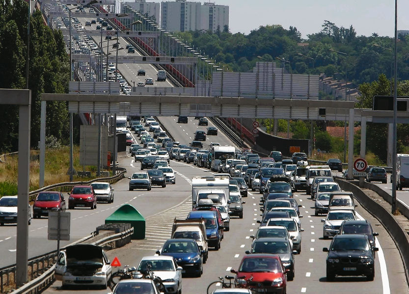 Ring of Bordeaux (exit 4)